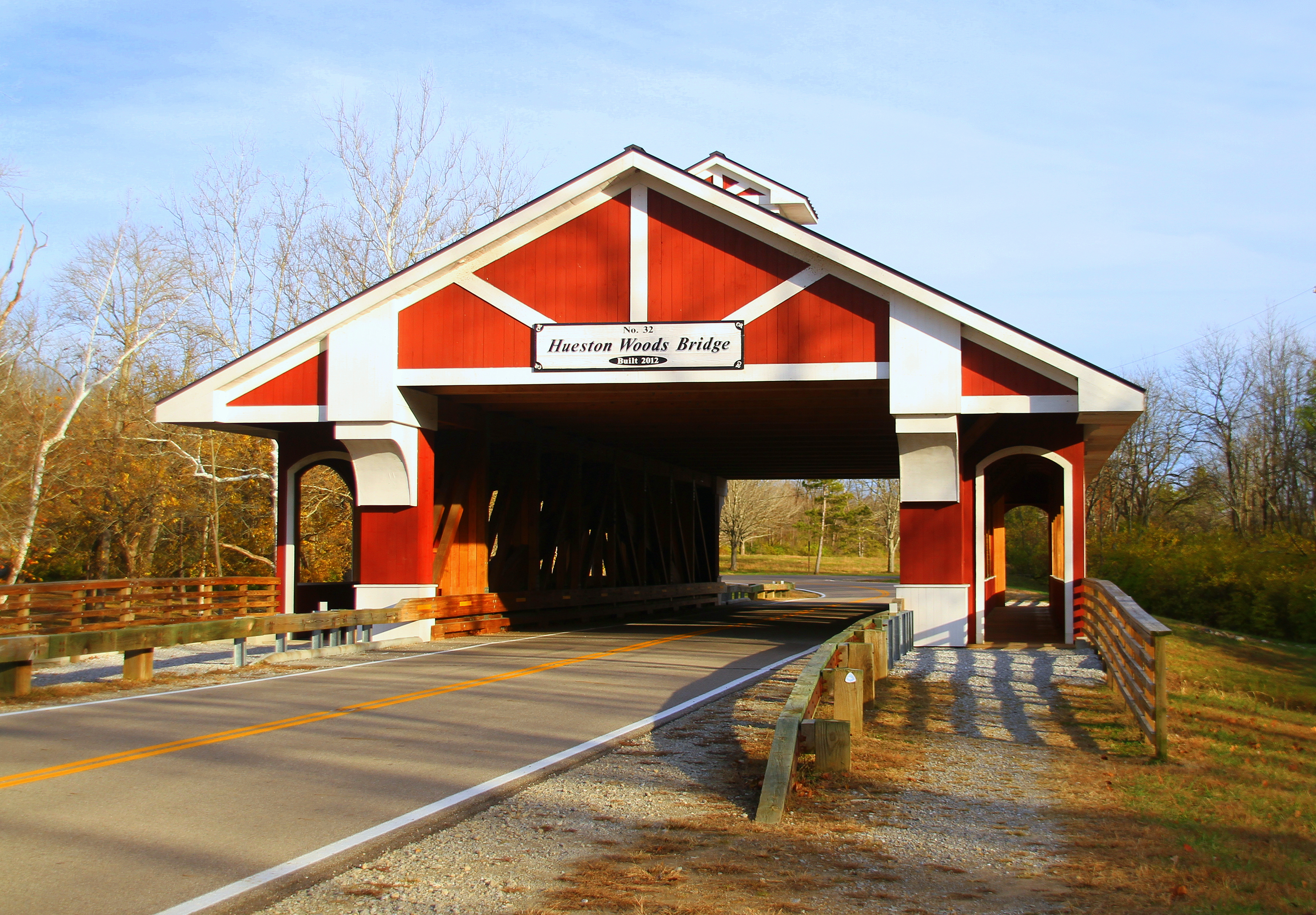 Hueston Woods Covered Bridge completed in 2012